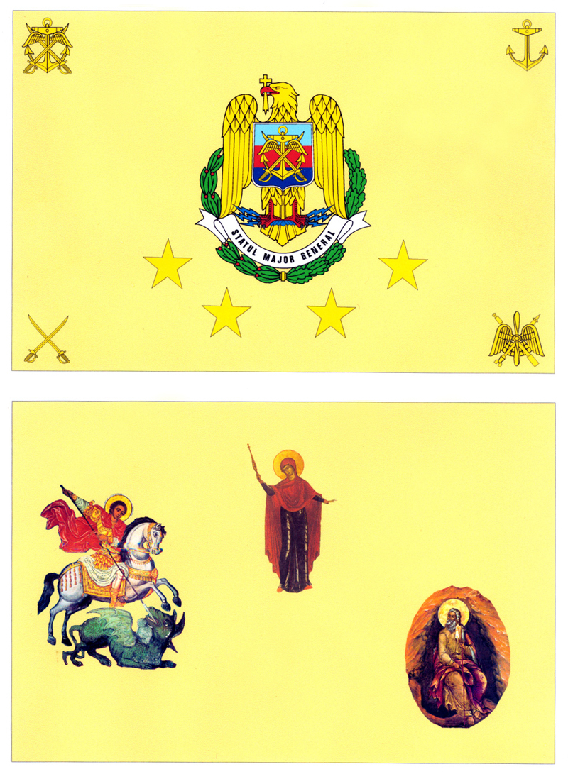 a scanned picture of both sides of the flag. taken from the online photo database of The Ministry of National Defense.